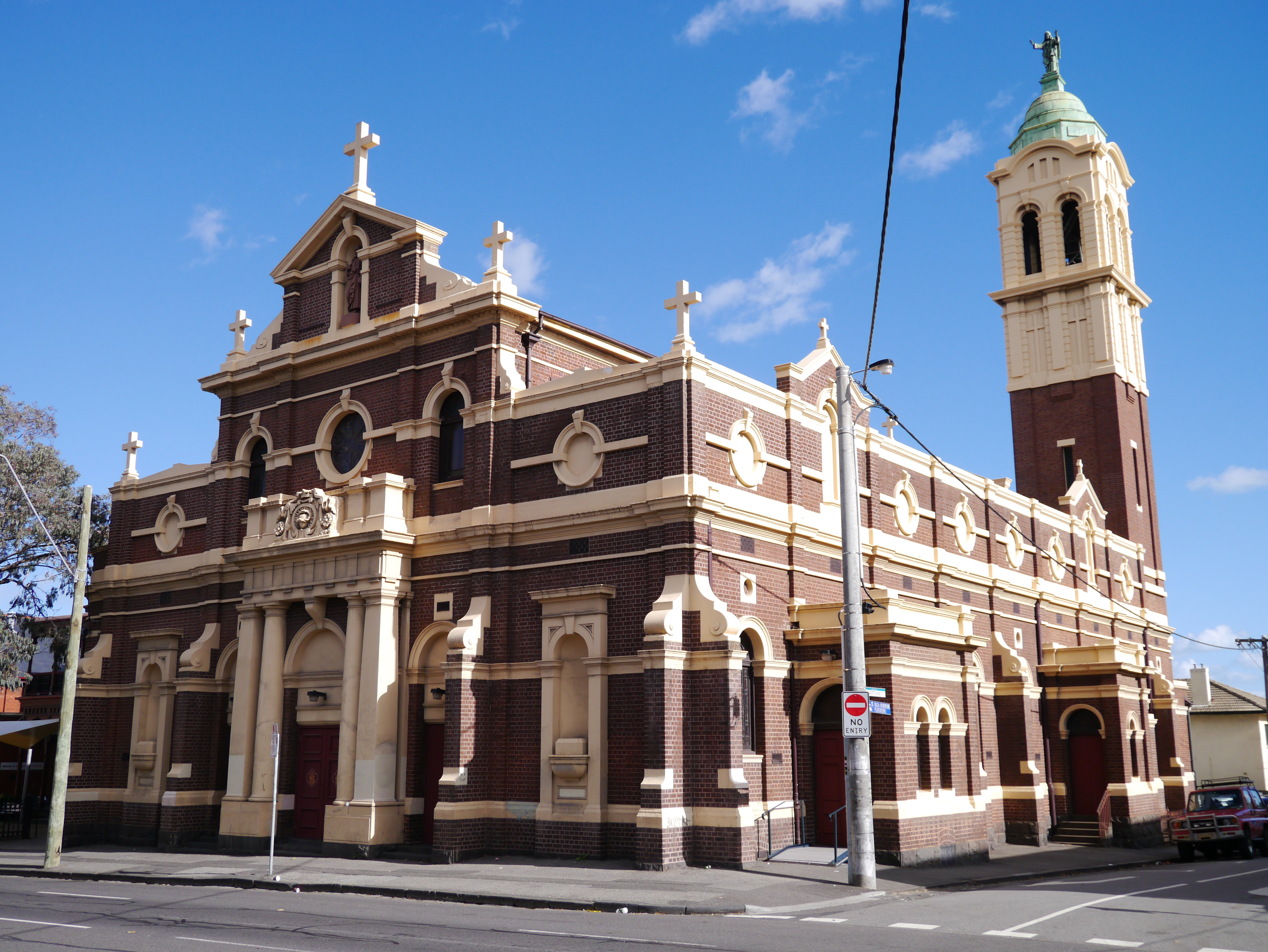 Exterior view of the Sacred Heart Church.